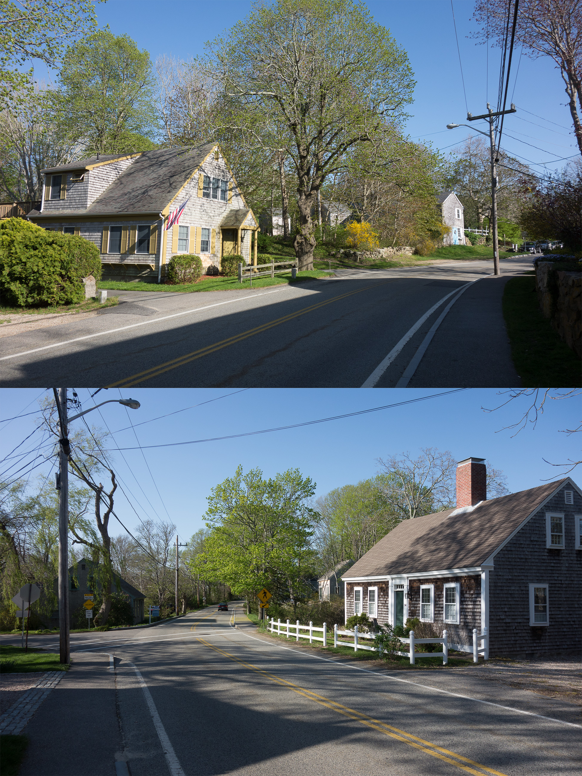 2-image collage of the Mill Way Historic District, Barnstable, MA. Two views of Millway.